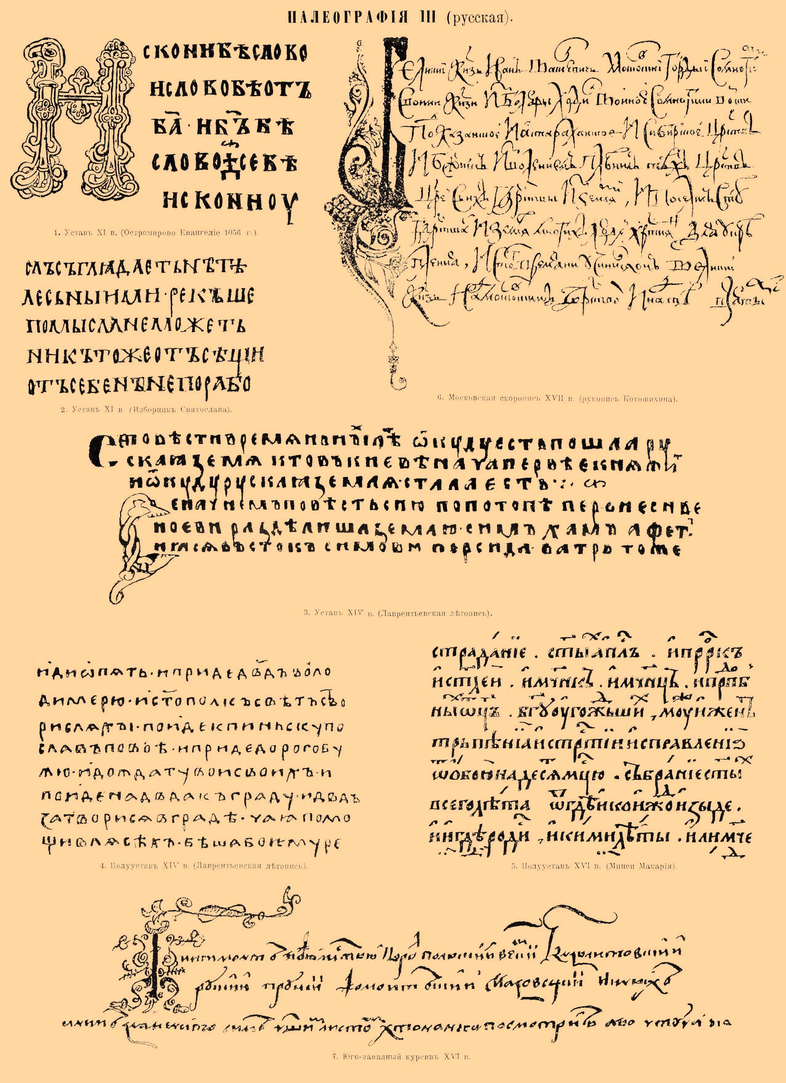 Illustration from Brockhaus and Efron Encyclopedic Dictionary (1890—1907)